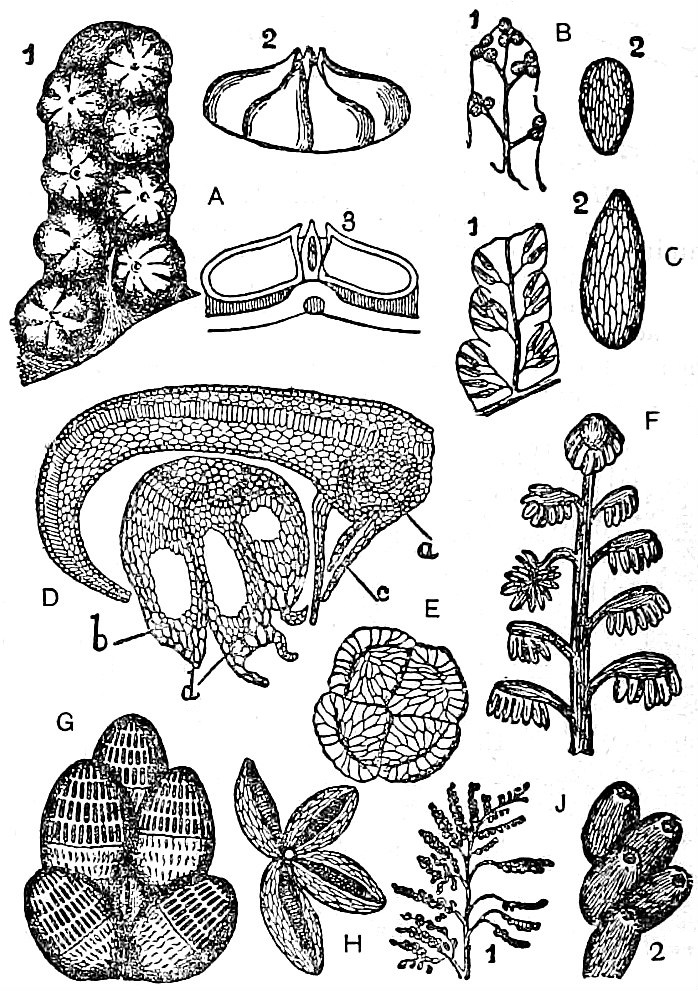 Group of Palaeozoic fructifications of ferns or pteridosperms (see legend below).